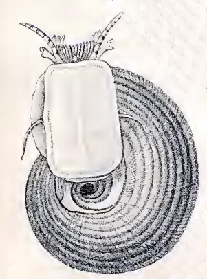 Lunella torquata (Gmelin, 1791); family Turbinidae